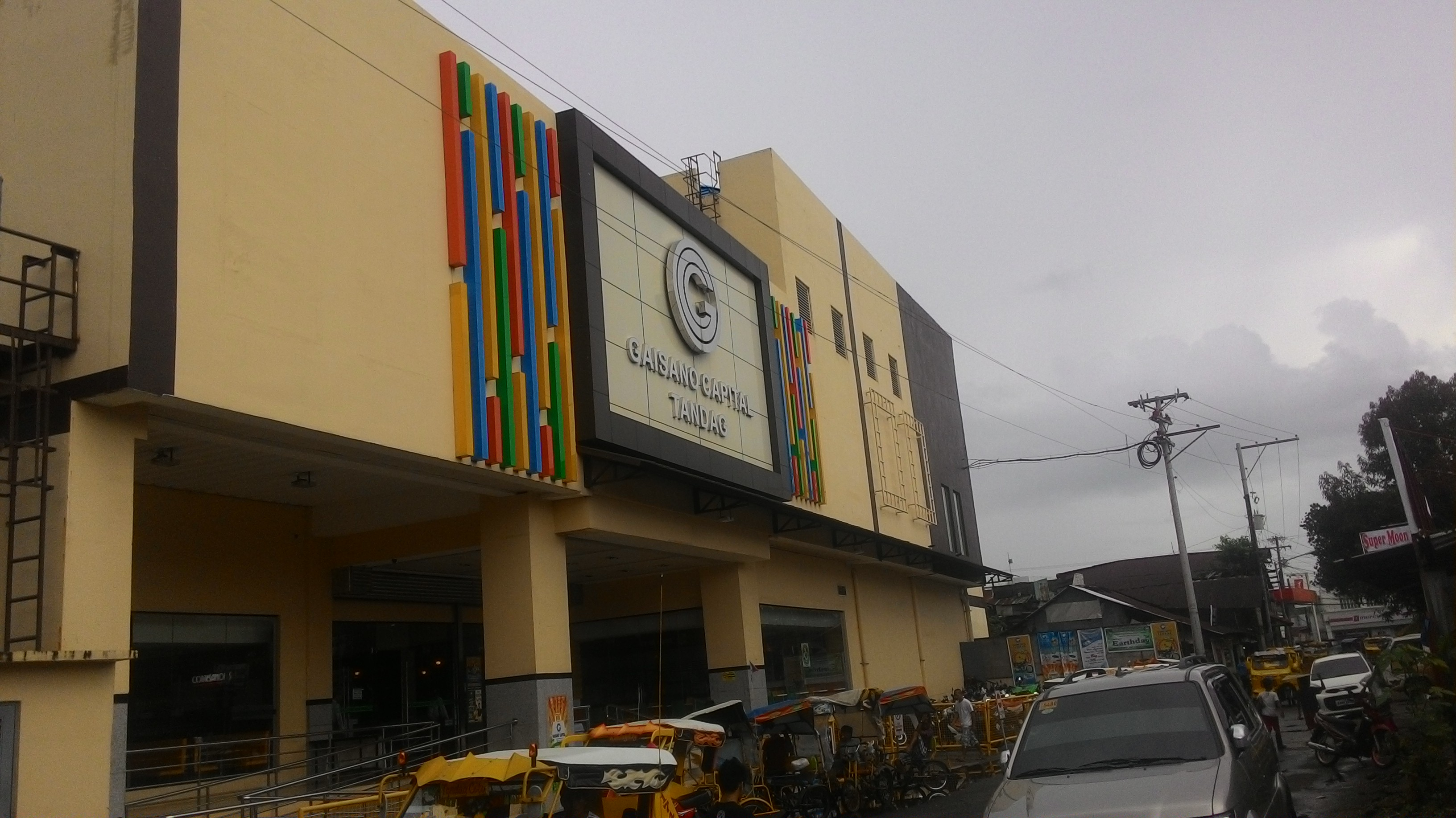 Front Entrance Along Cabrera Street